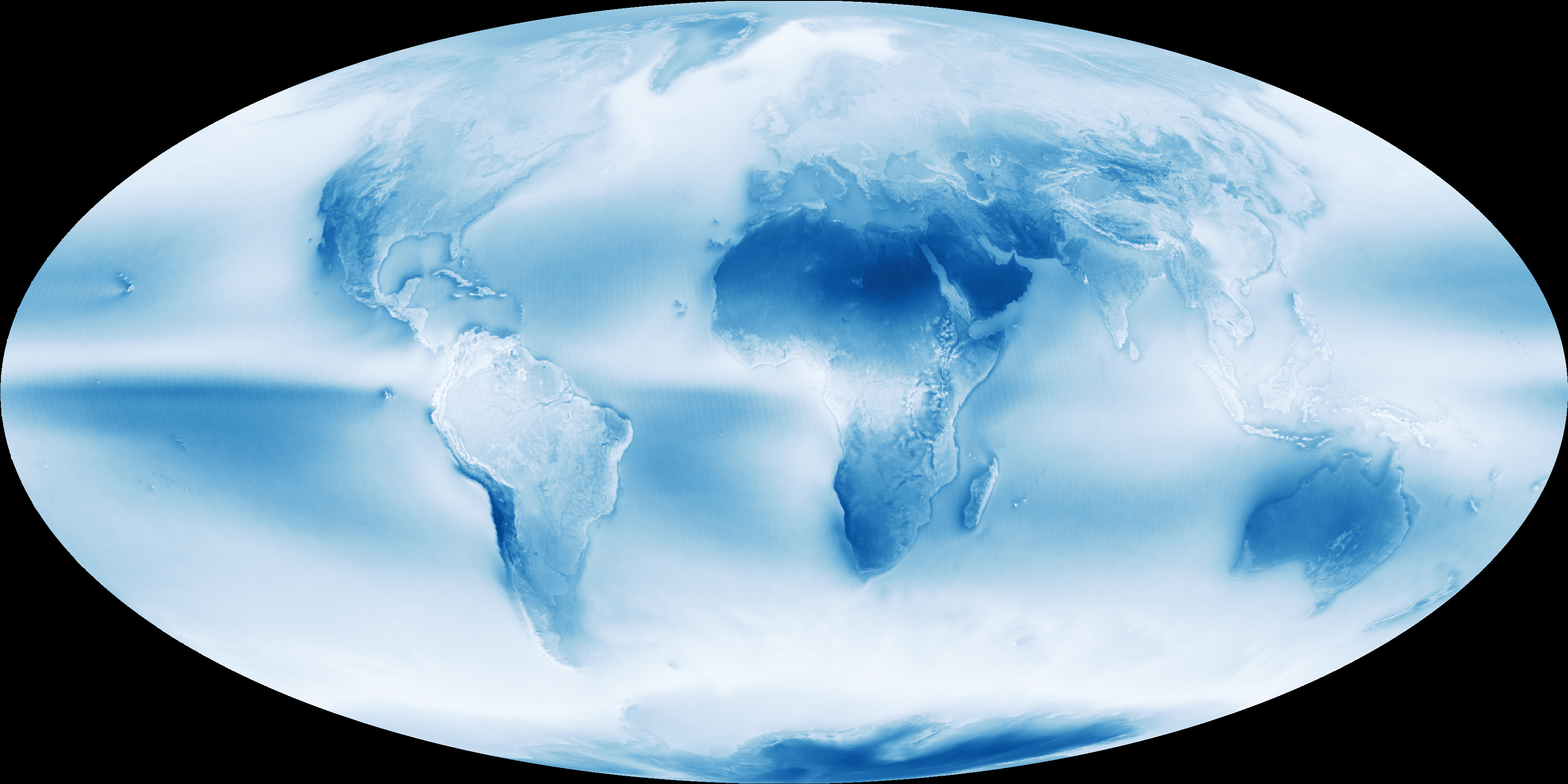 NASA Earth Observatory published a map of data collected between July 2002 and April 2015 to give a view of the world’s cloudy and sunny spots. This is an average of the MODIS images from AQUA satellite. The darker the color, the clearer the sky.